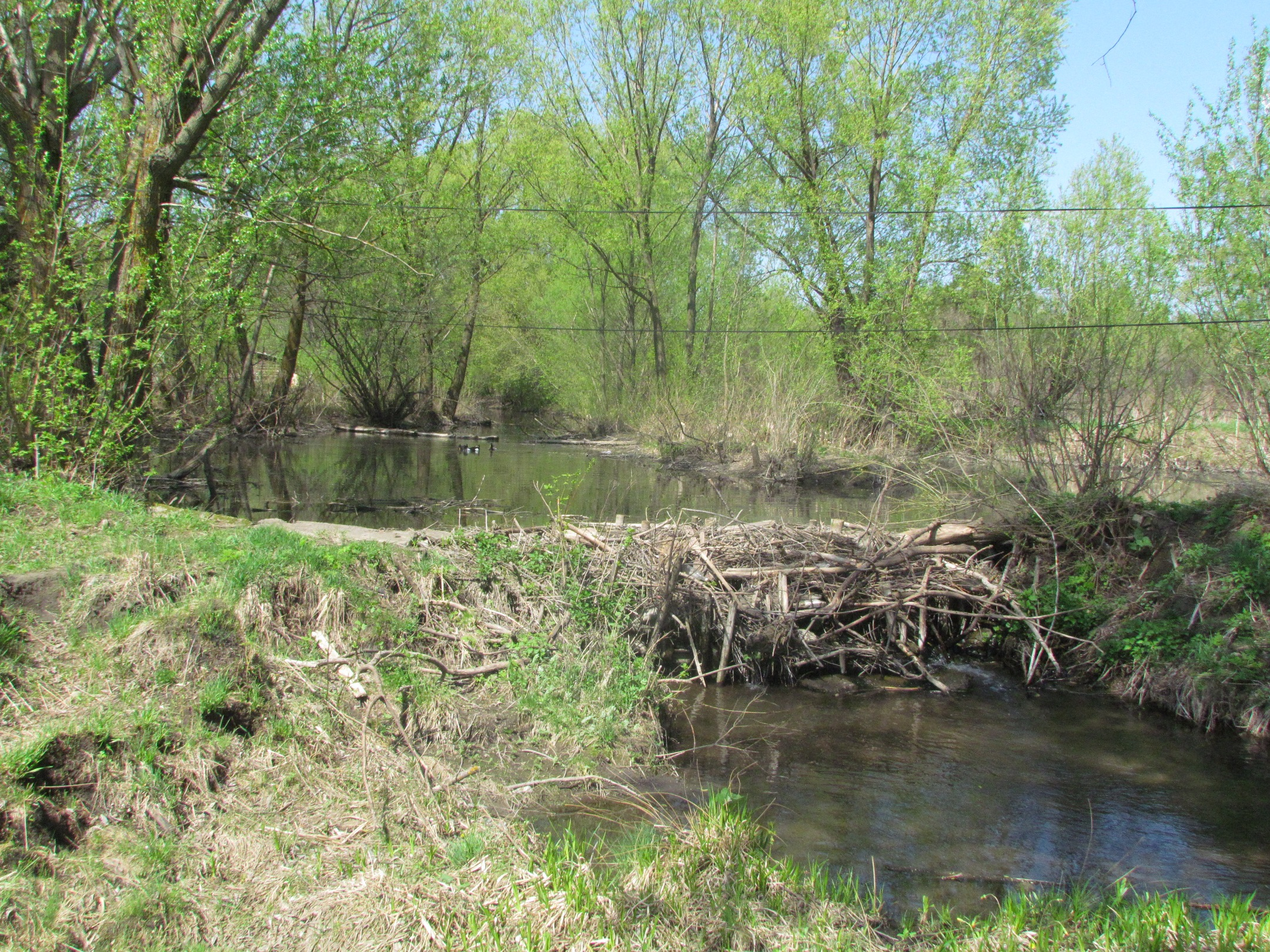 Beaver dam on Sosnovochka river in Sosnovka (Bekovo)